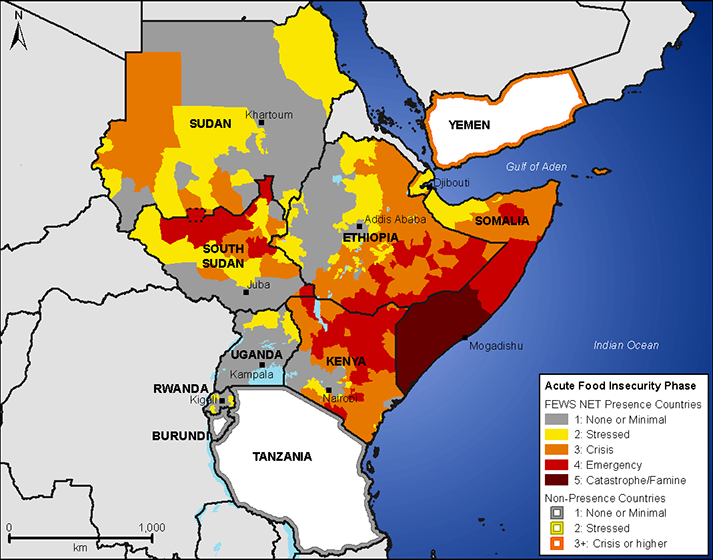 The FEWS projection of the 2011 East Africa drought for October-December, using the IPC scale.